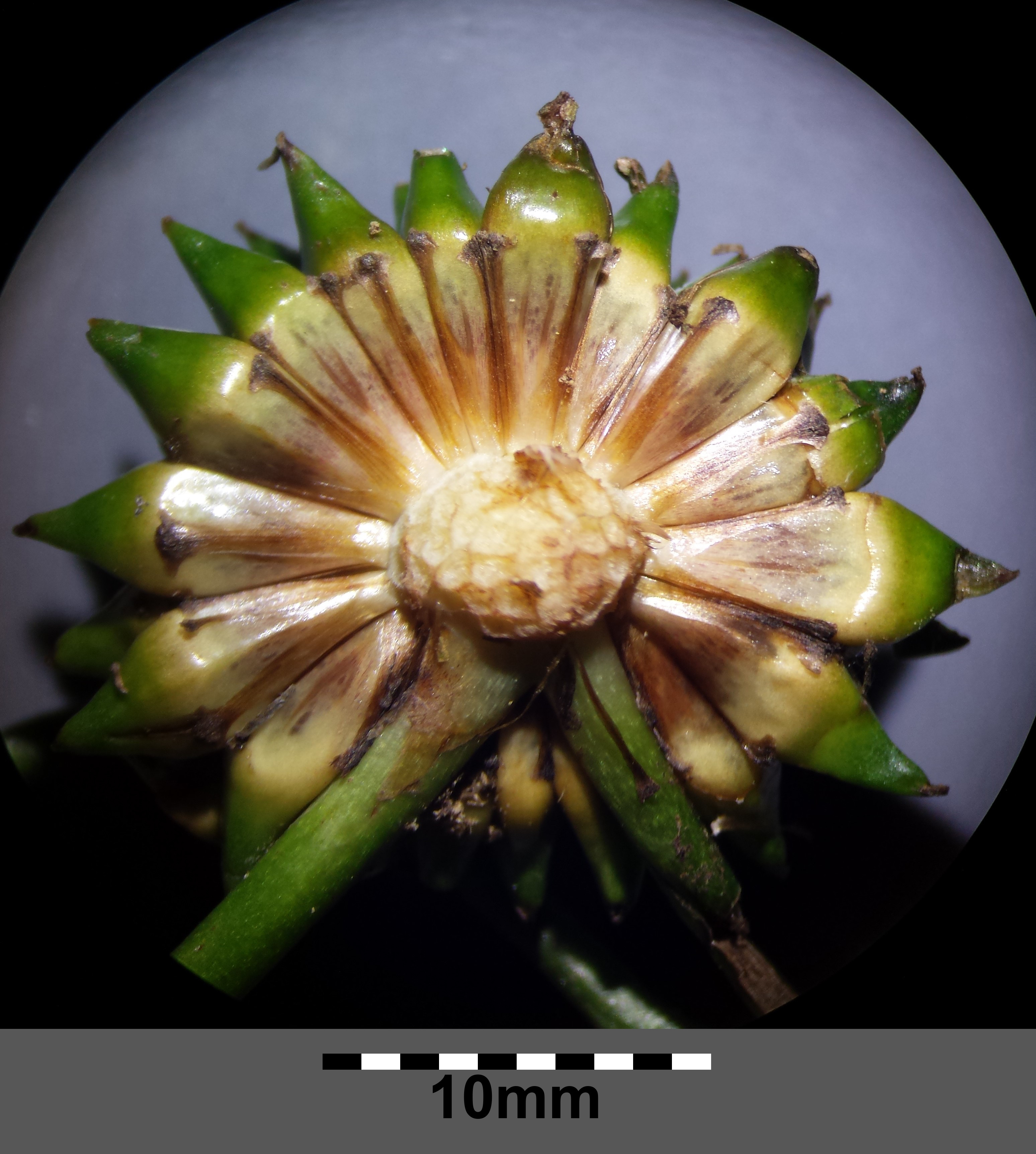 Infructescence, opened Taxonym: Sparganium erectum subsp. neglectum ss Fischer et al. EfÖLS 2008 ISBN 978-3-85474-187-9 Location: pond near Goldenes Bründl, Rohrwald, district Korneuburg, Lower Austria - ca. 225 m a.s.l. Habitat: shore of a pond